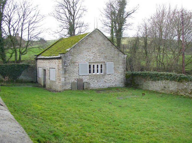 Farfield Friends' Meeting House, Bolton Road (B6160), Addingham, West Yorkshire, England. It was built in the same year as the Toleration Act, 1689, but has not been used by the Society of Friends for 150 years. It is in the care of the Historic Chapels Trust.